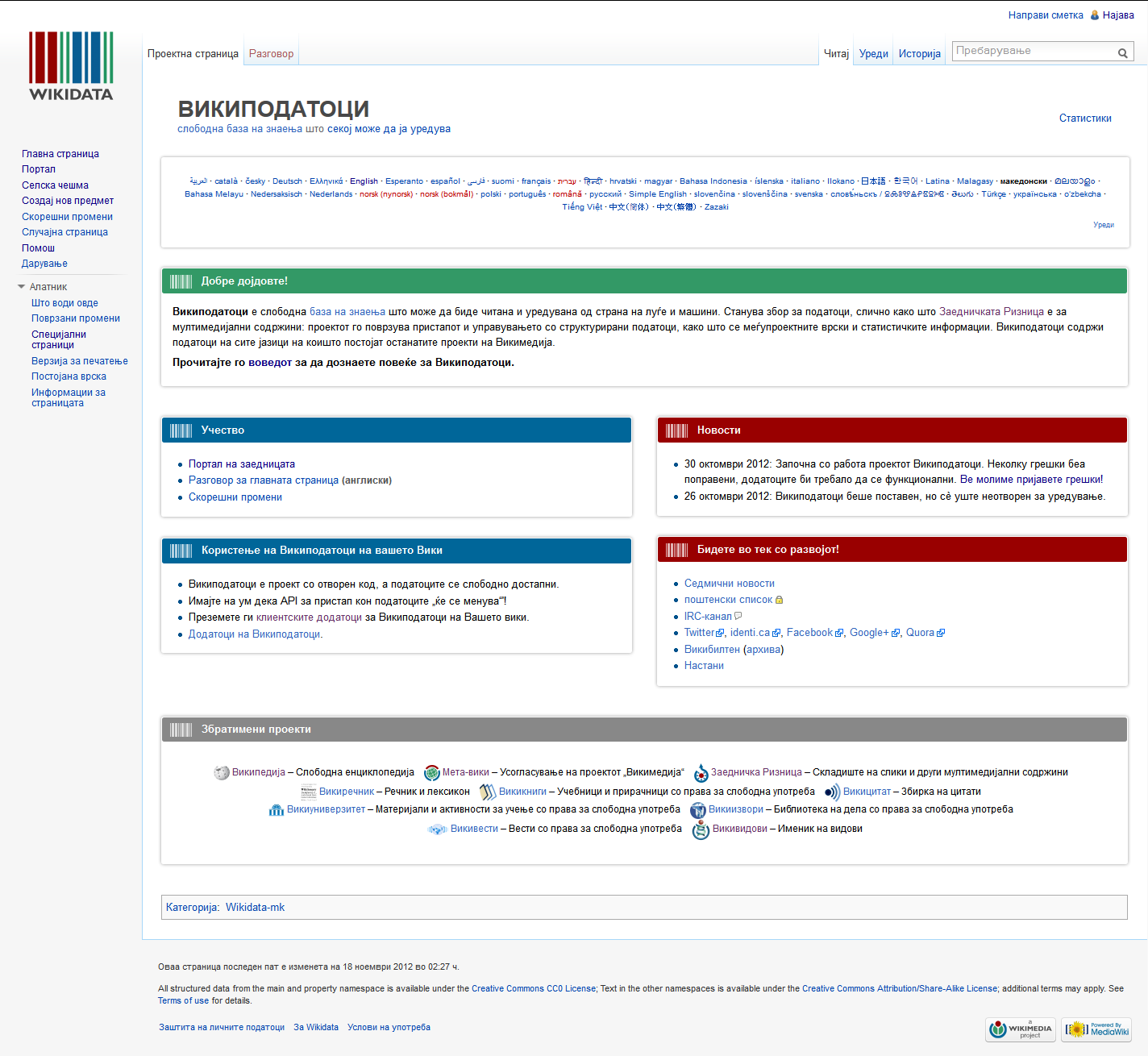 Screenshot of the Macedonian main page of Wikidata.